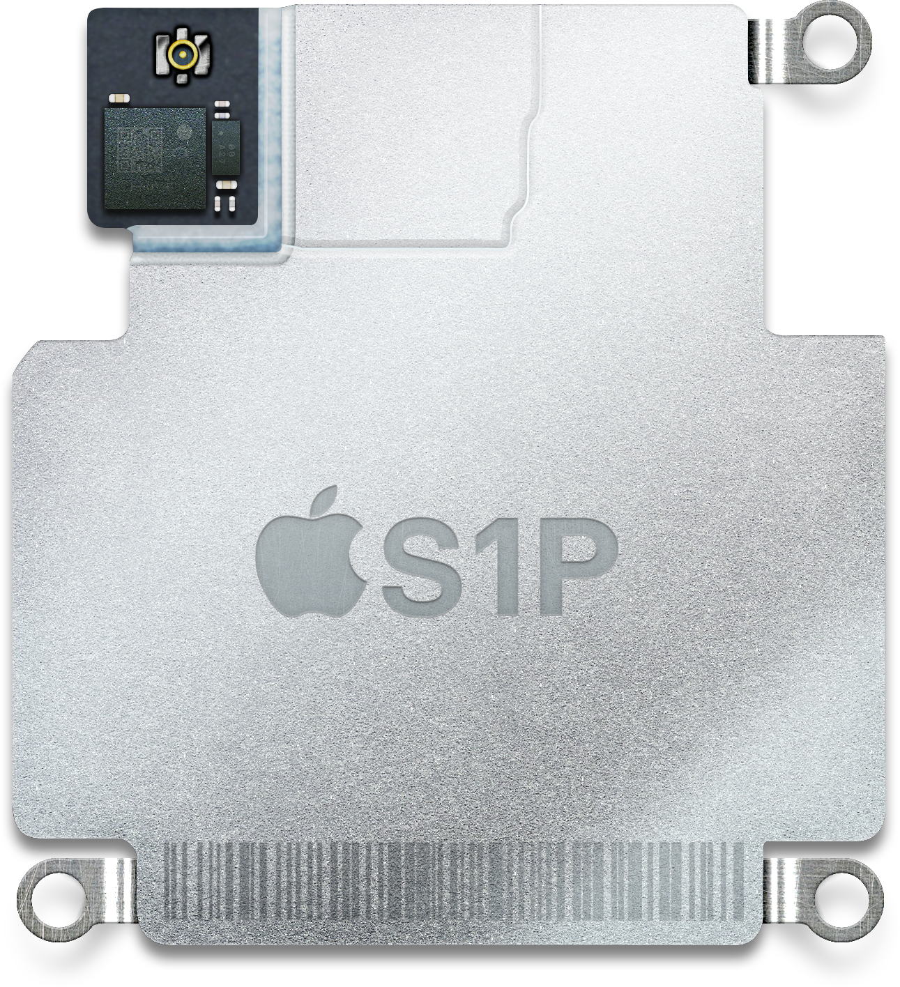 An illustration of Apple's S1P integrated computer for the Apple Watch Series 1 with its resin encapsulation showing. Inspiration for this picture comes from Apple's promo videos for the Apple Watch, iFixit's and Chipworks' Apple Watch Series 0 and 1 teardowns.